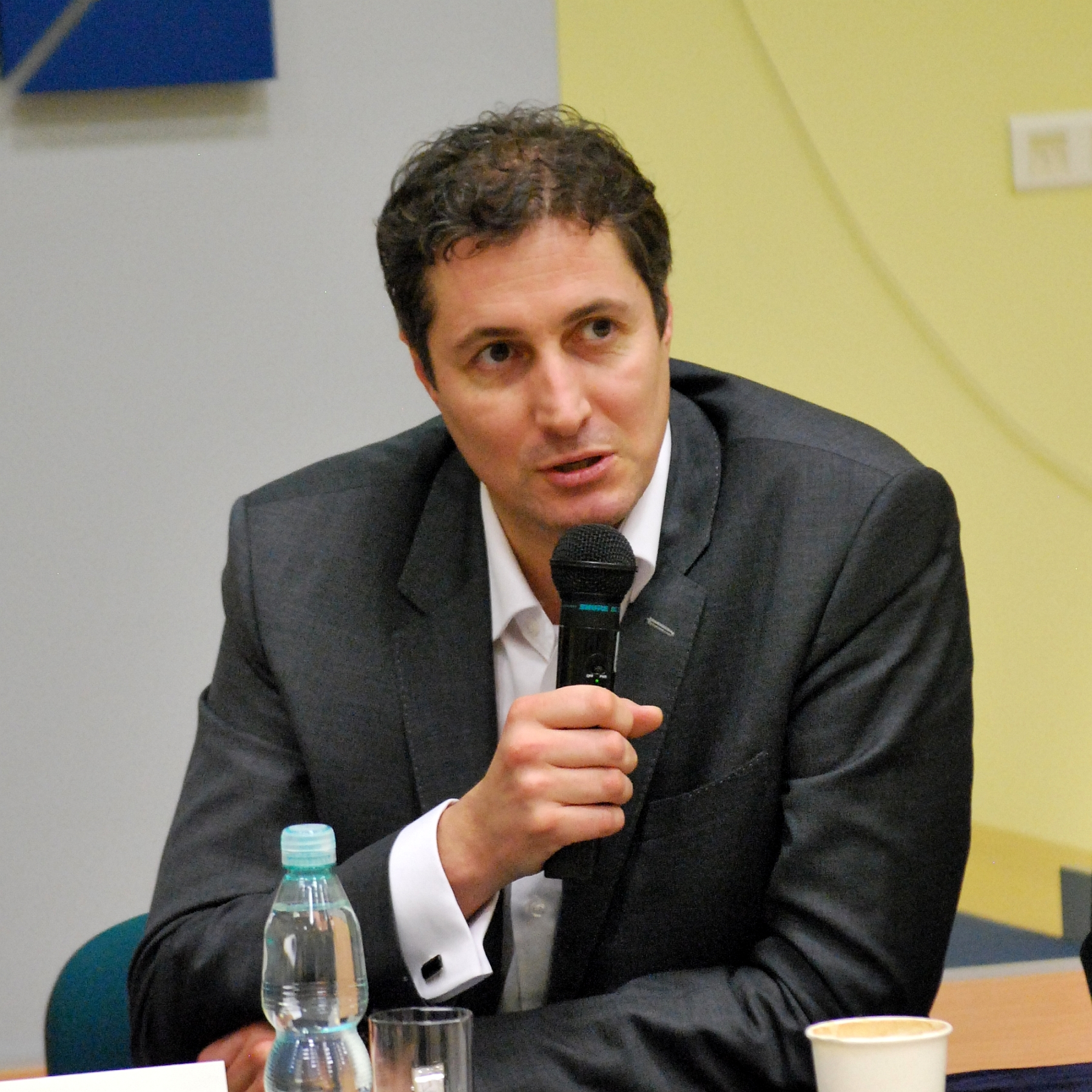 Artur Partyka, double olympic medalist in high jump, Łódź, 1.10.2014 Conference "Management and Sports"